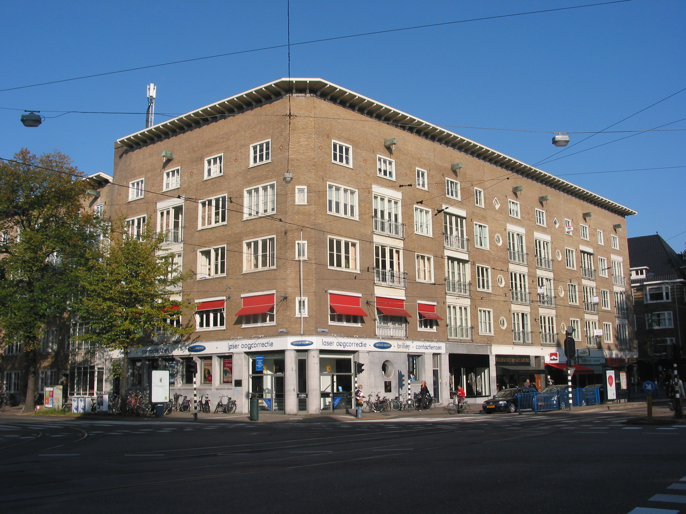 Stadionweg 102-102A (left), Beethovenstraat 84-96 (from right to left).